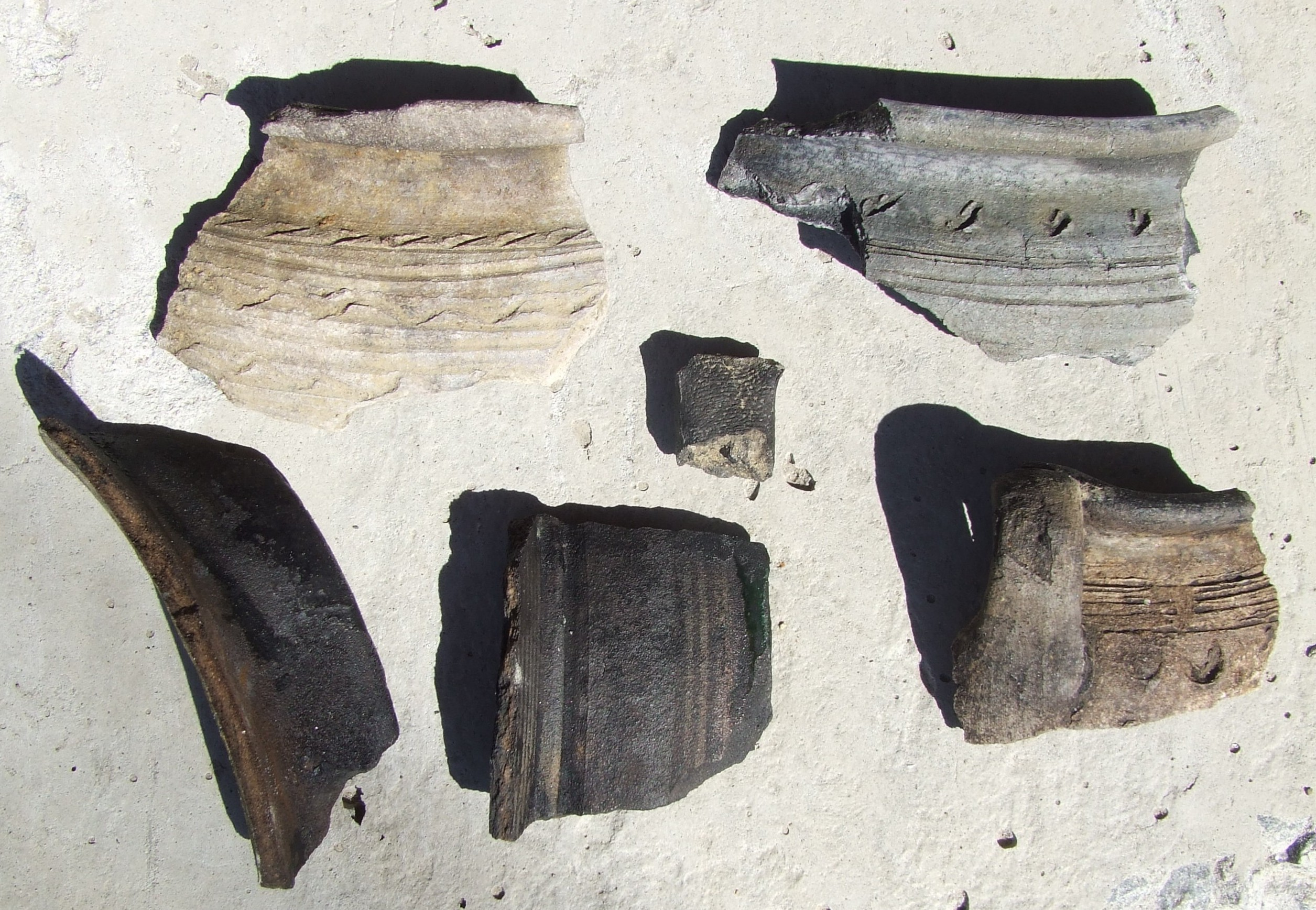 The fragment of earthenware dated by XIV century A.D. which belongs to Kievan Rus culture and was found during the process of archeological excavations at Poshtova Square in Kyiv in July of 2015. In general during this exploration the archeologists have found the remains of city buildings (site coverage), tools, utensils, tableware, not significant number of adornments